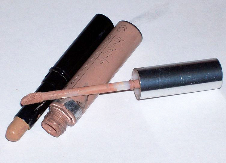 Various types of cosmetic concealer.